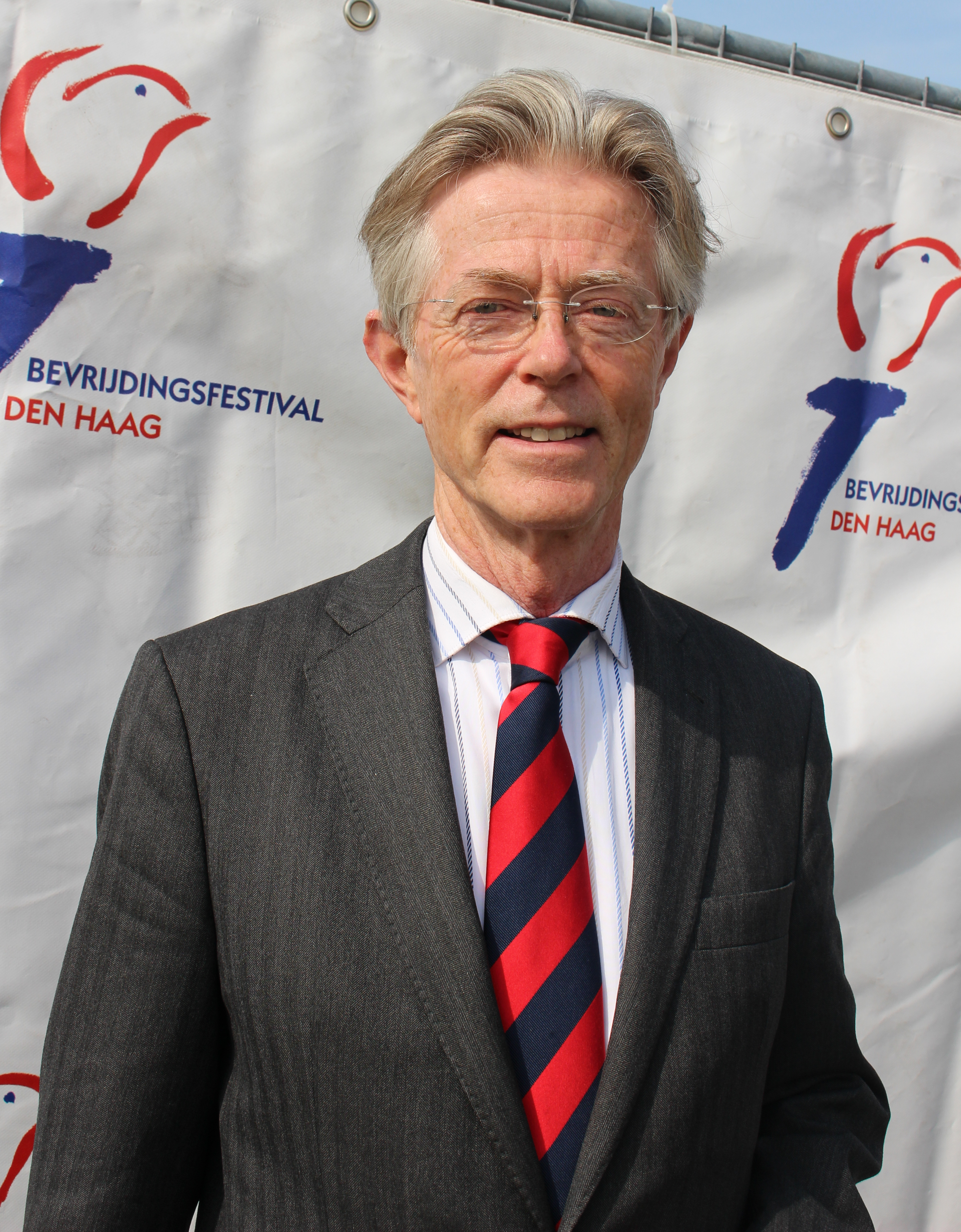 Performing at Bevrijdingsfestival 2014